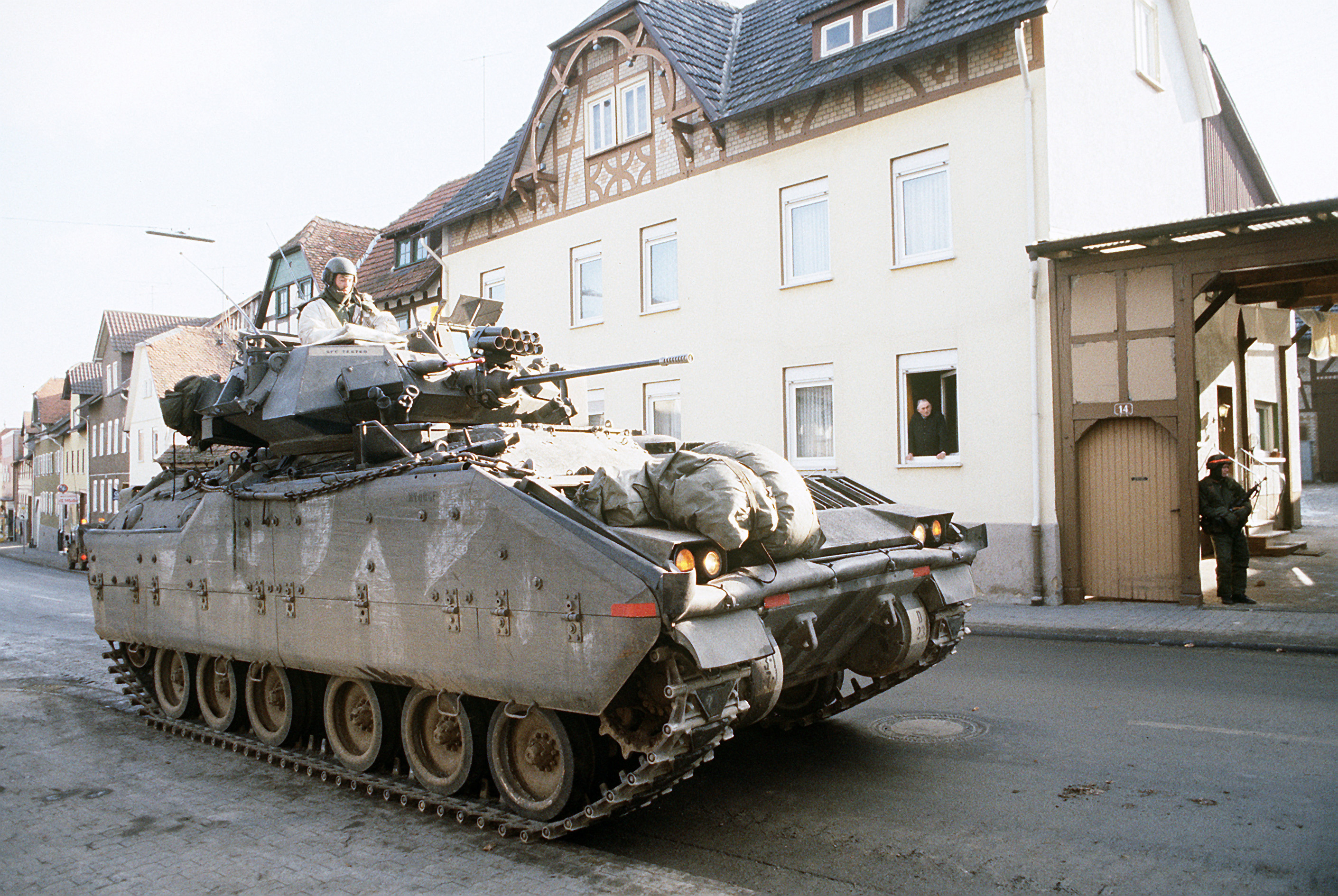 An M-2 Bradley fighting vehicle from 1st Battalion, 7th Infantry, 3rd Brigade, 3rd Infantry Division moves along a street during Central Guardian, a phase of Exercise Reforger '85 in Langgöns near Giessen, Hesse, Germany.